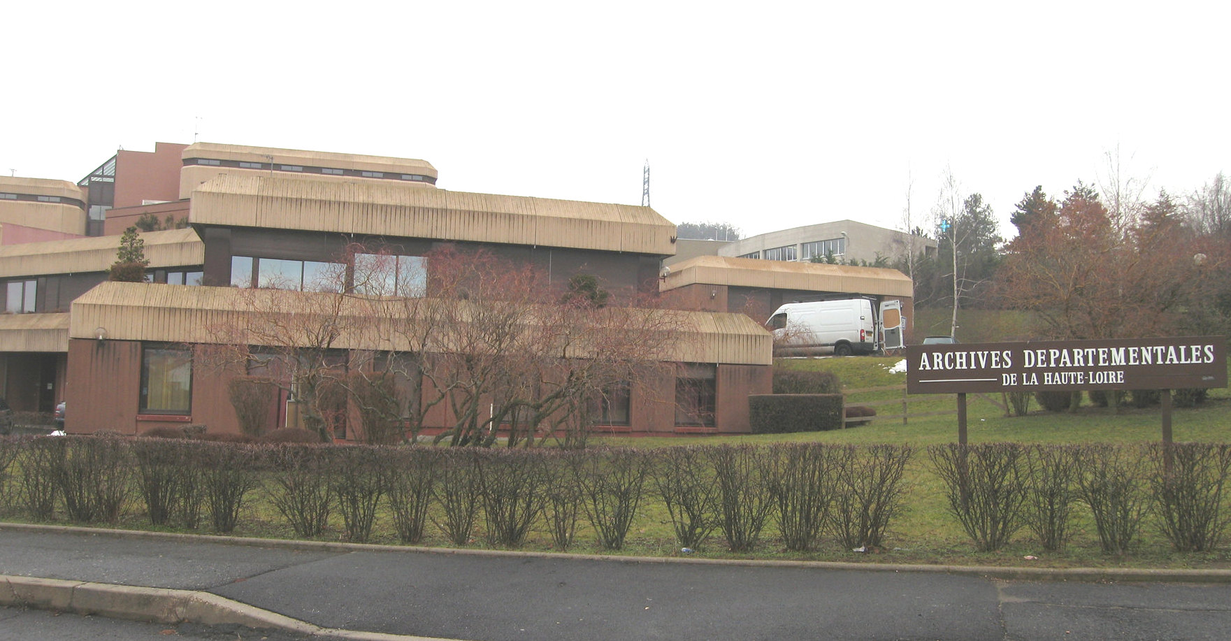 Building of the Archives Departmental of the Haute-Loire, sight from the public entrance, west side.